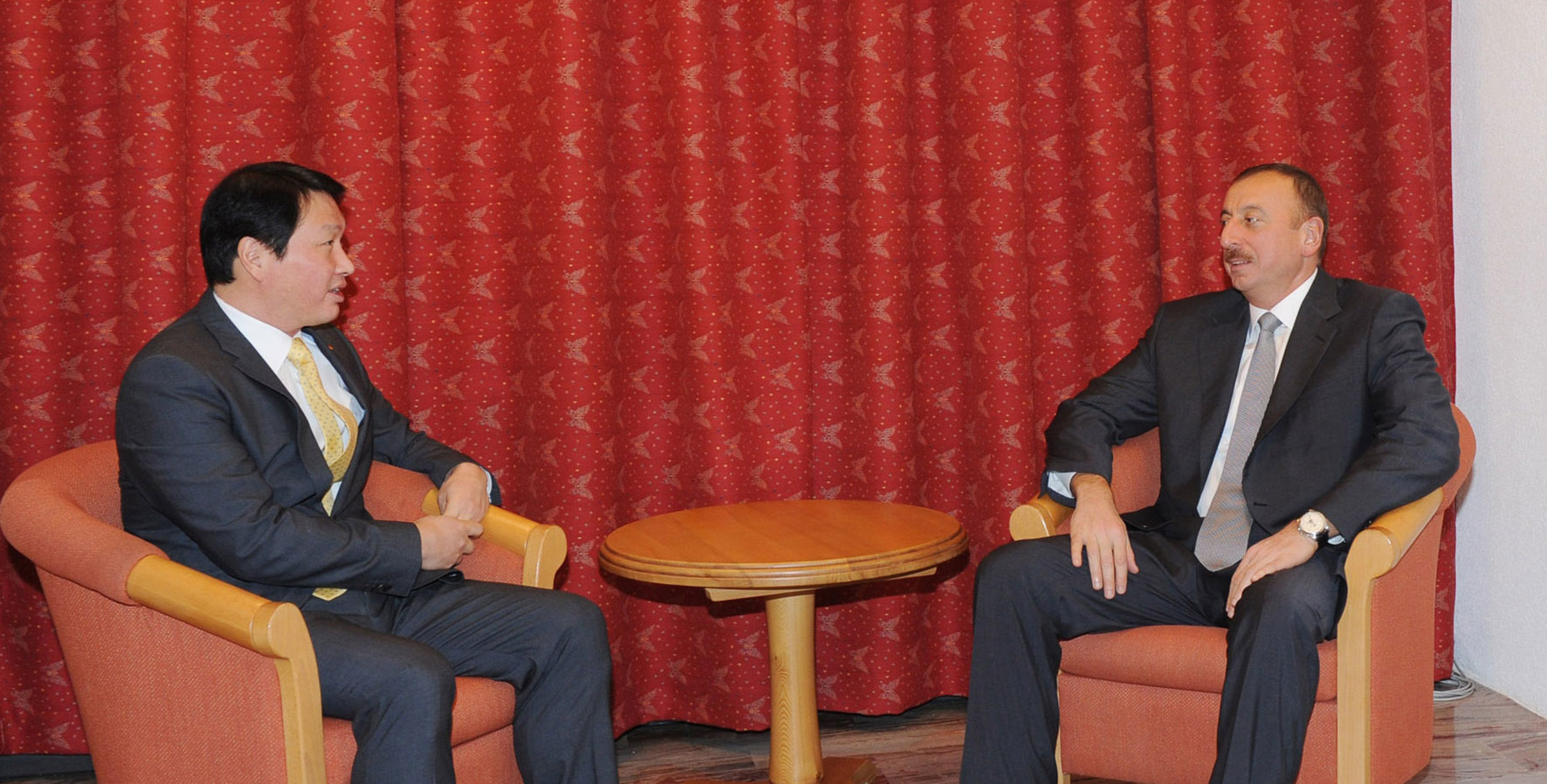 Ilham Aliyev met with Chairman of the SK Group company, Chey Tae-Won